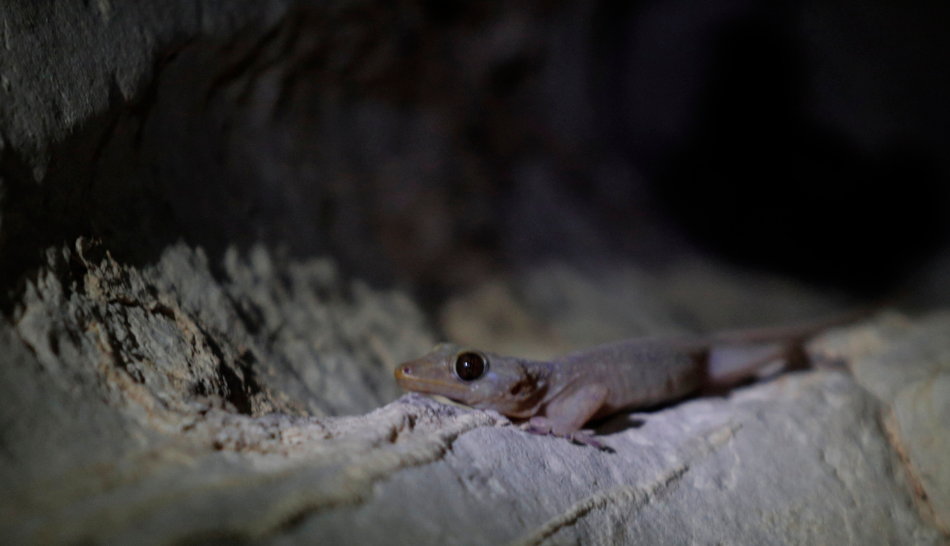 G. gigante